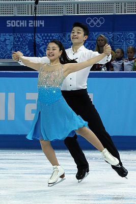 Maia Shibutani and Alex Shibutani at the Olympic Games 2014